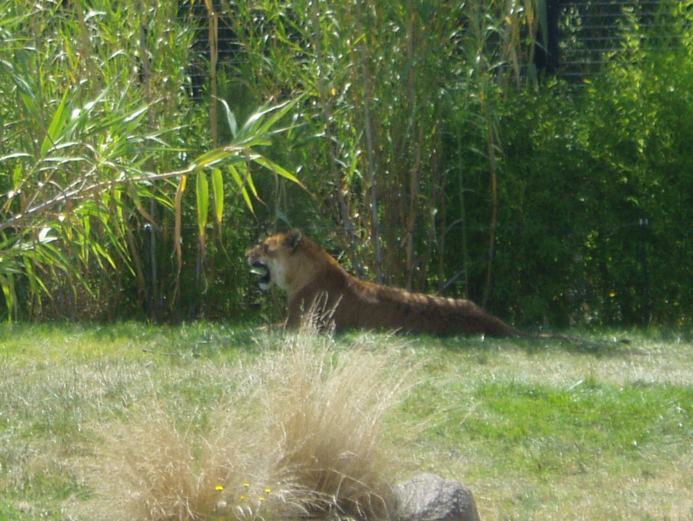 Tigon at Canberra Zoo.